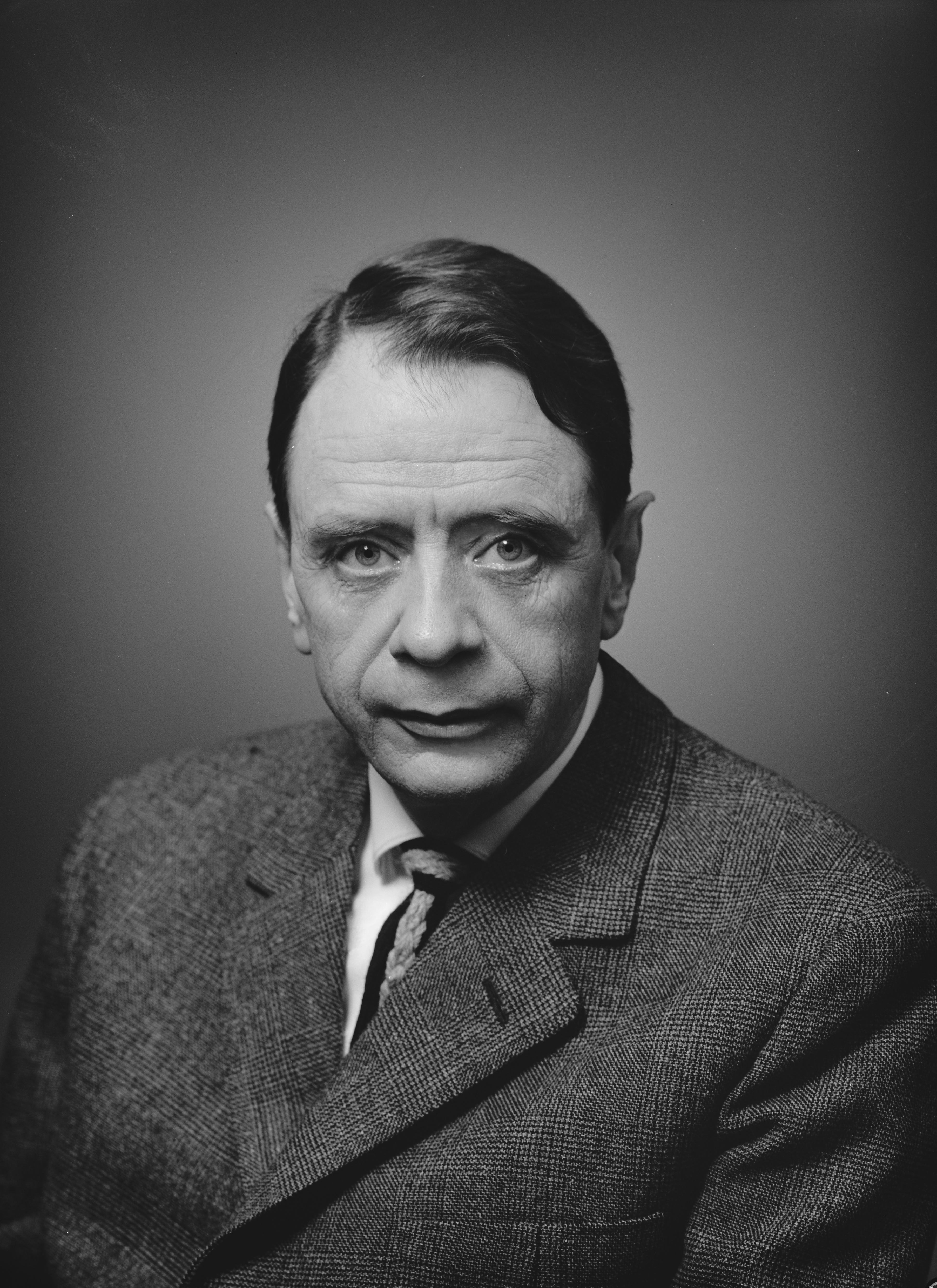 Photograph of the Finnish psychiatrist and writer Martti Paloheimo (1913–2002).